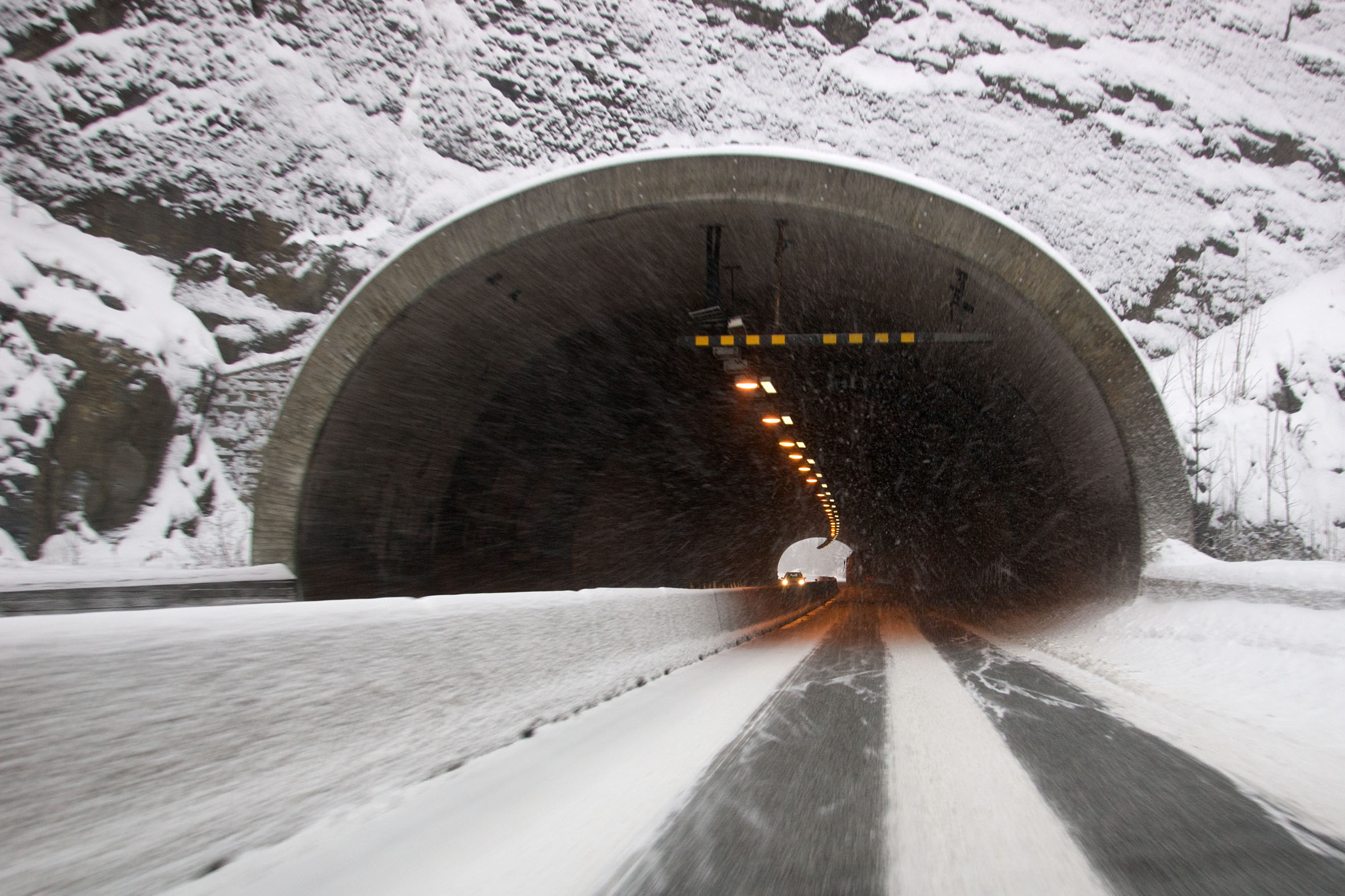 Steinbrekka tunnel on E18 in Porsgrunn, Telemark, Norway